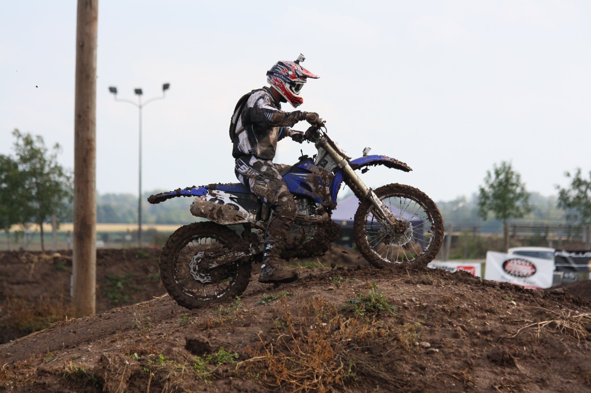 Perry Prichard on the Spectator Jump at Gravity Park USA during his attempt to be the first driver to ride motocross for 24 hours.